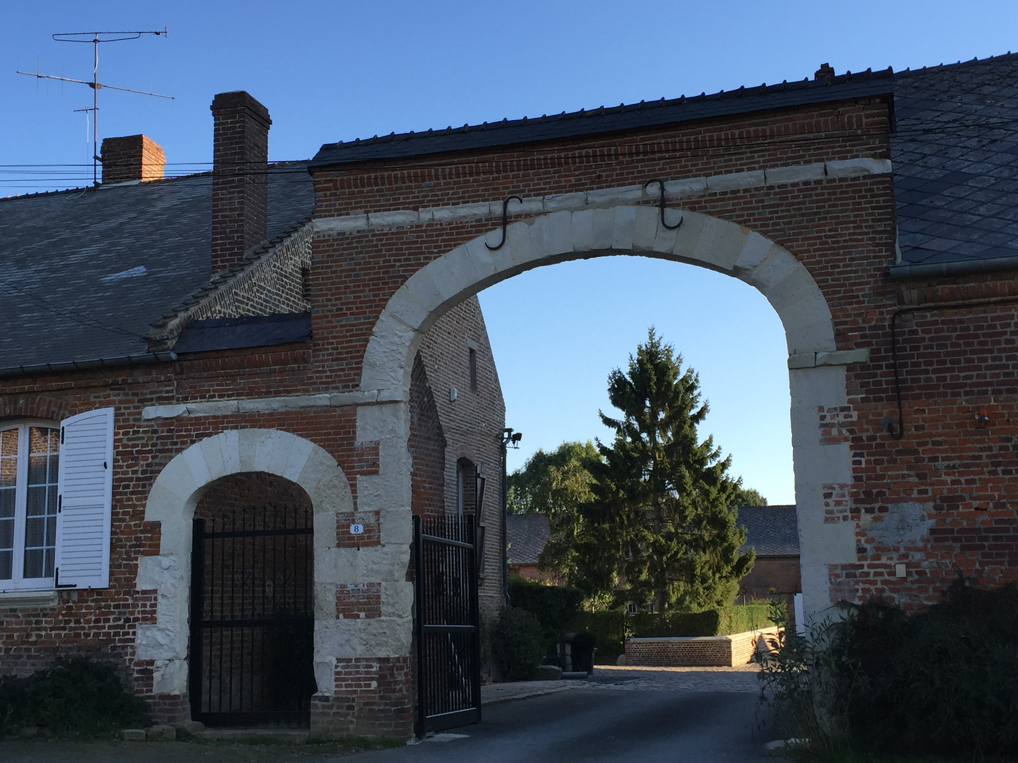 Berlancourt (Aisne) ferme Mombaerts-Paradis, porche